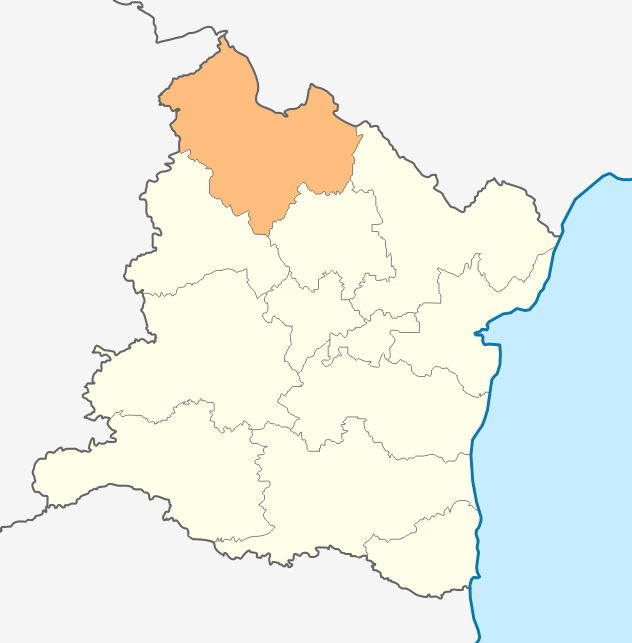 Map of Valchi dol municipality, Varna Province